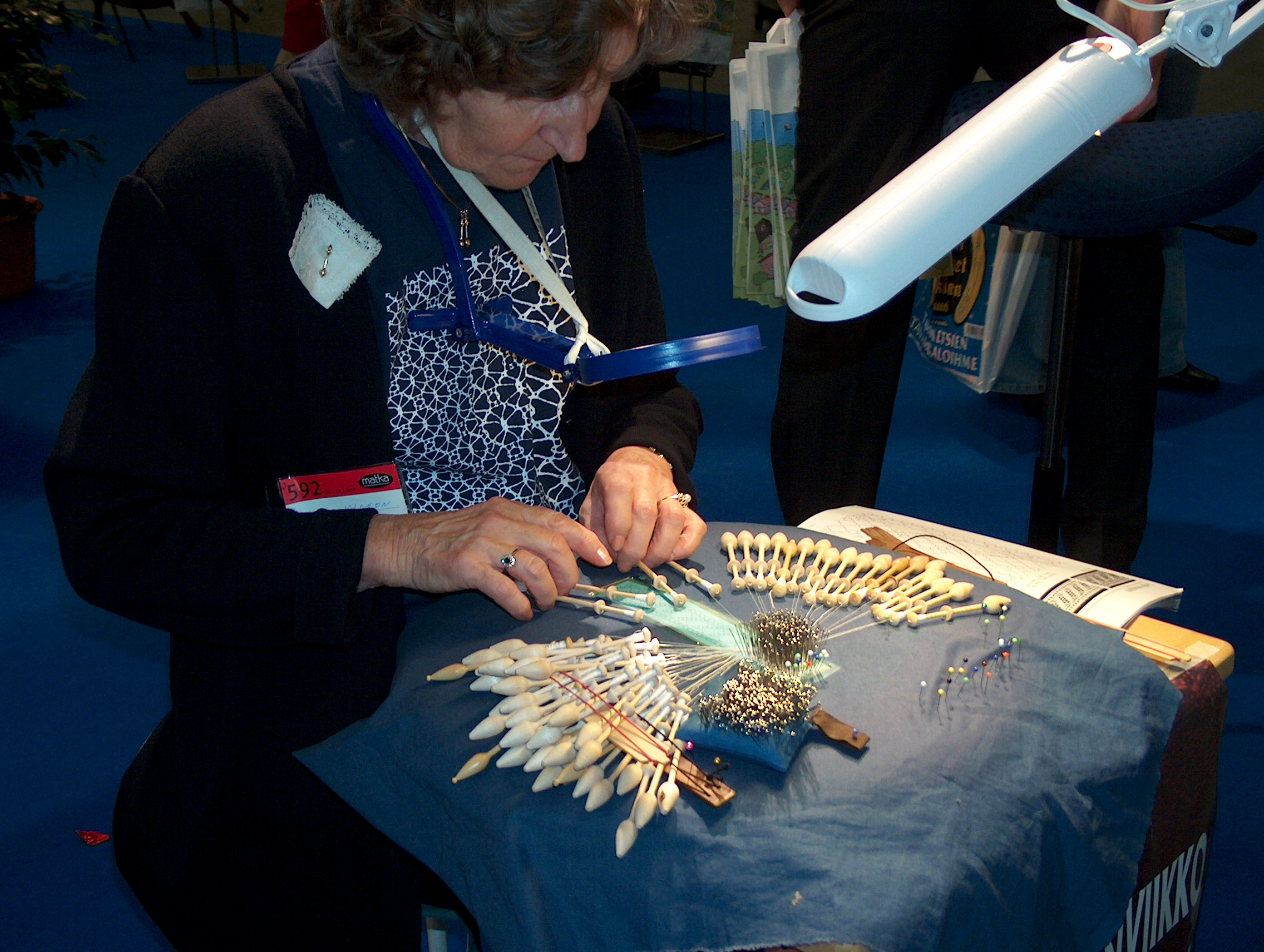 Finnish bobbin lacer working at Helsinki Travel Fair 2005